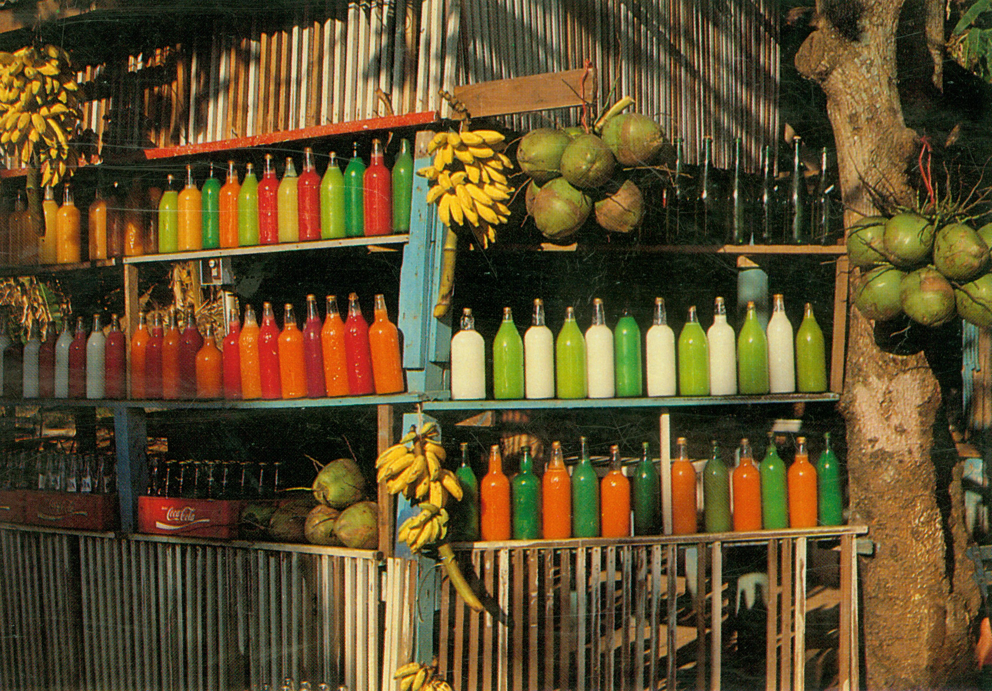 Bottles of batida, a traditional brazilian cocktail, in a shop at Santa Cruz Cabrália, Bahia, Brazil.